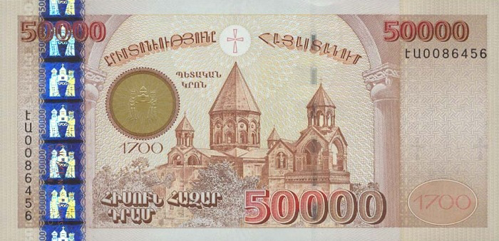 50000 dram 2001